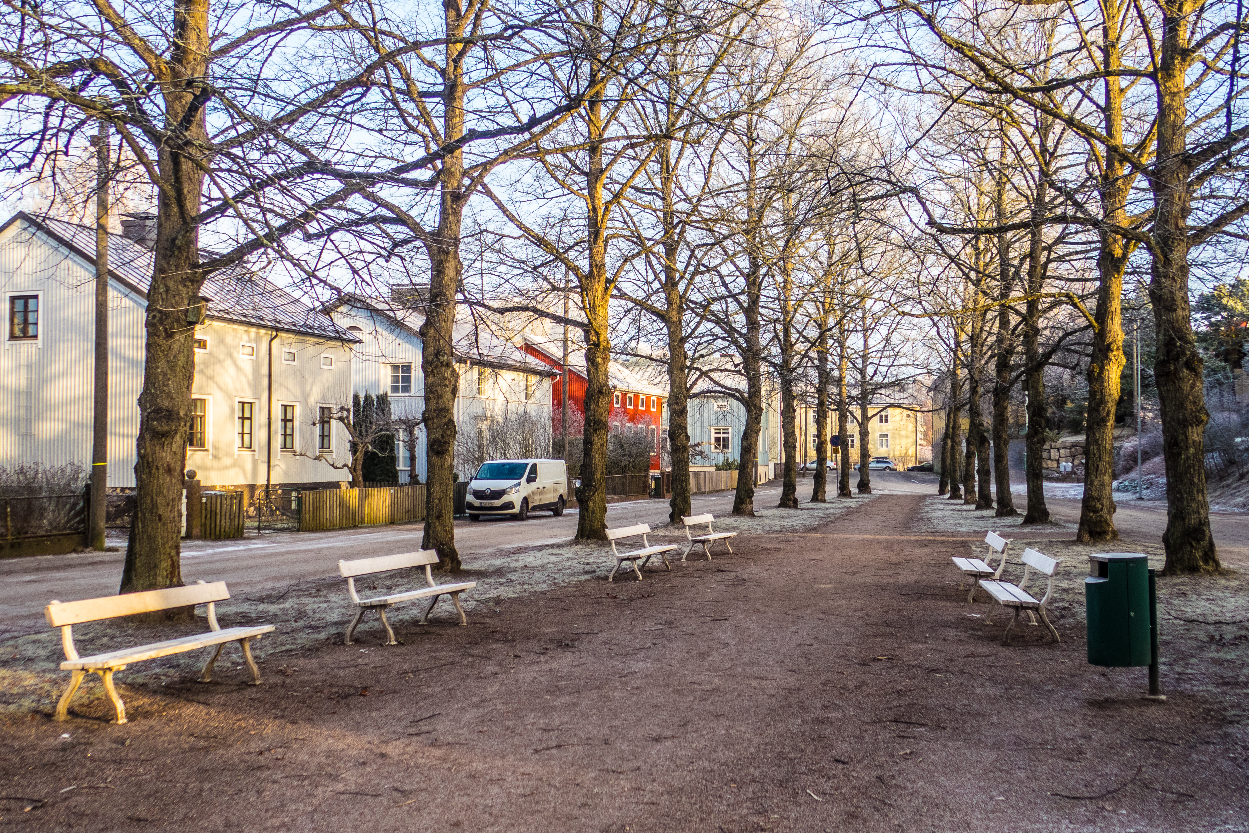 Street and park in Mäntymäki, Turku, Finland